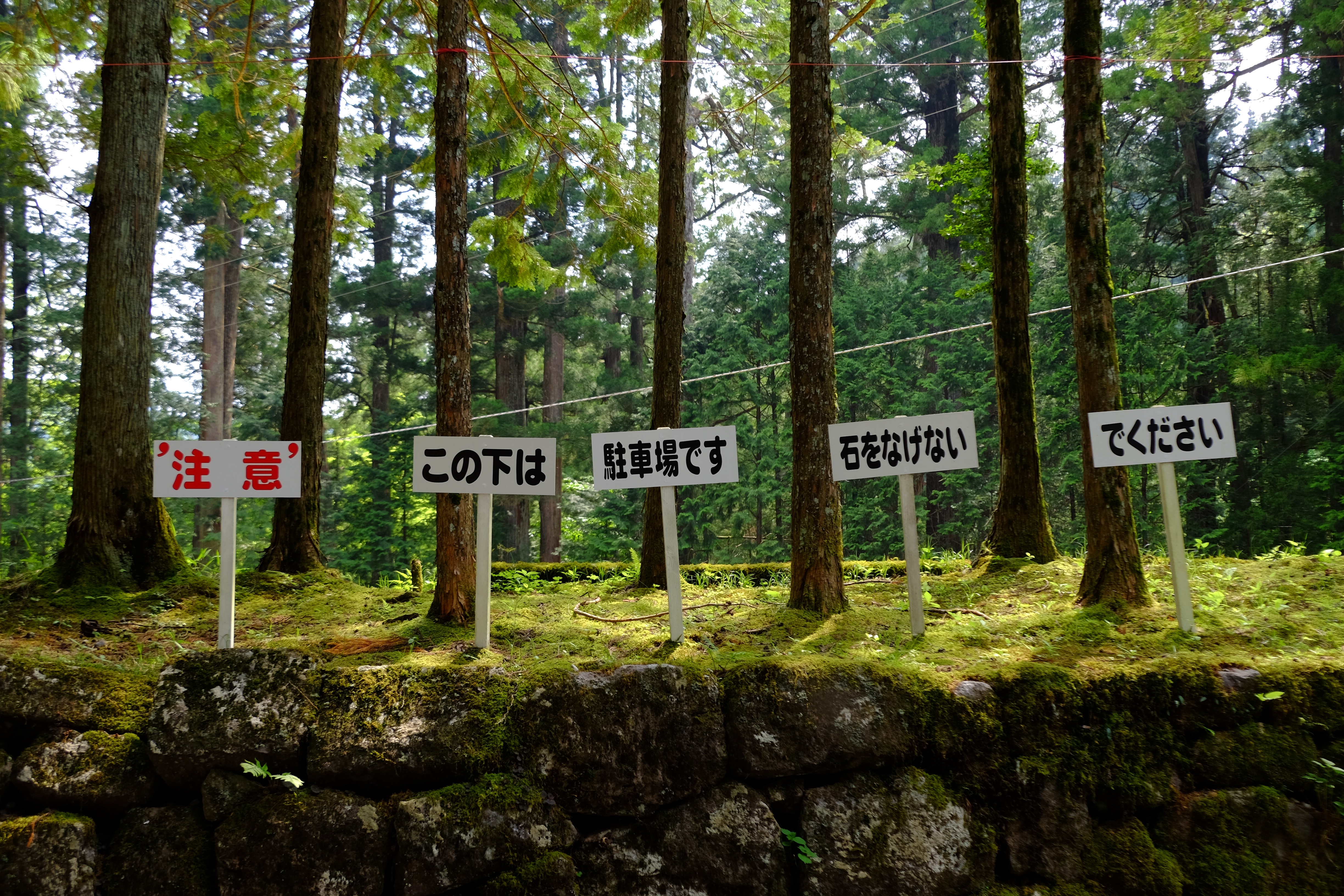 CAUTION